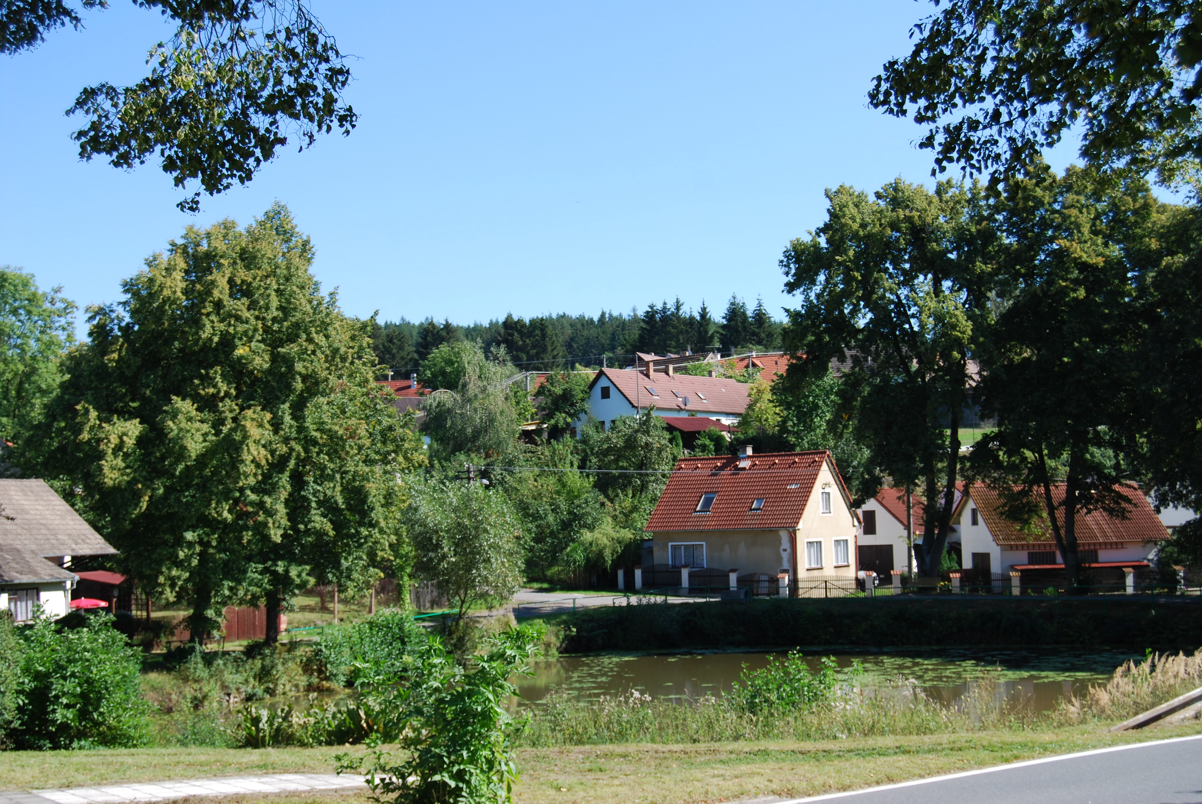 Olešná village in Písek District, Czech Republic.